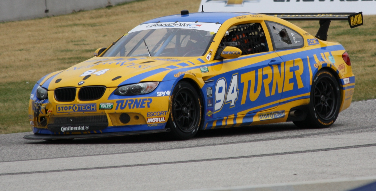 The Turner Motorsports GT car driven by Paul Dalla Lana and Bill Auberlen at a 2012 race at Road America.